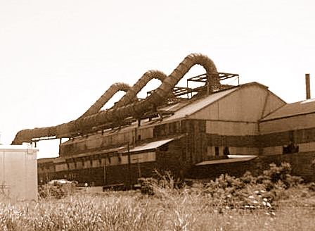 Photograph of Erie Forge and Steel (formerly National Forge) taken by Pat Noble in August 2006 in Erie, Pennsylvania. Erie Forge and Steel (Formerly National Forge)